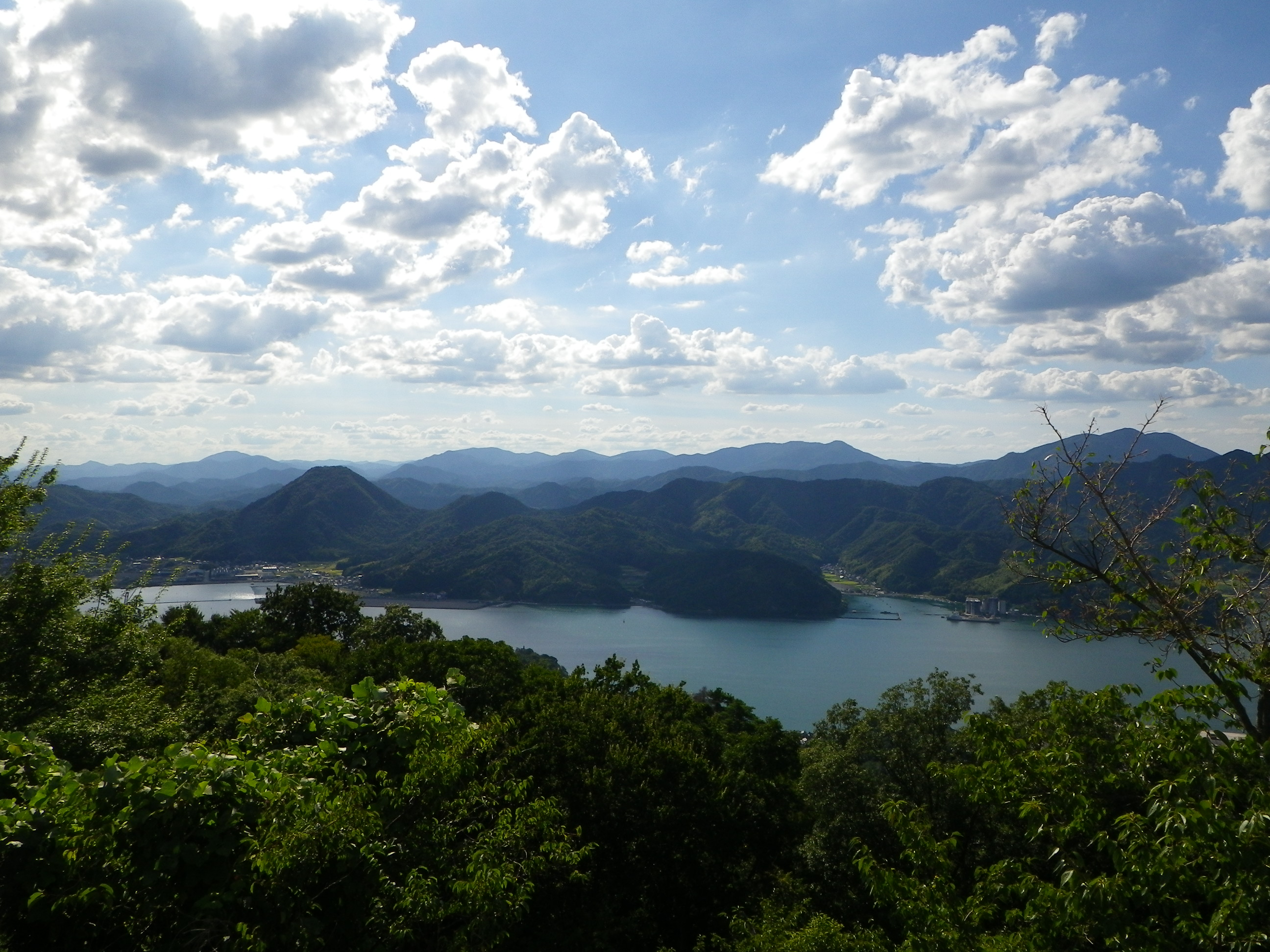 Tango mountains1